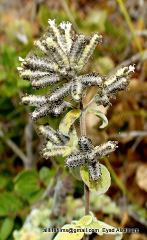 نبات برّي سوري يؤكل